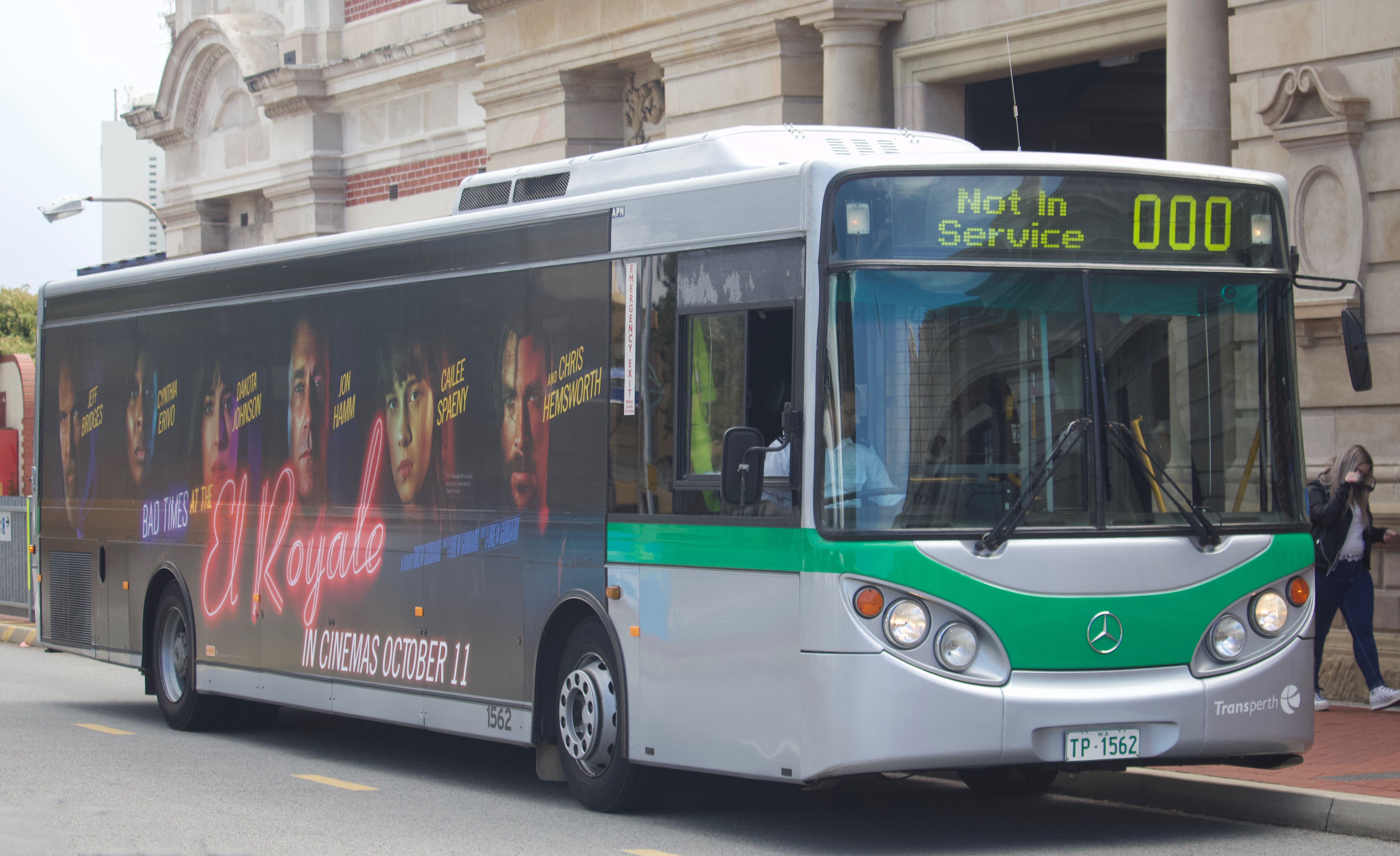 Transperth 2001 Volgren CR225L on Mercedes-Benz O405NH Swan Transit originally operating a 103, but now out of service